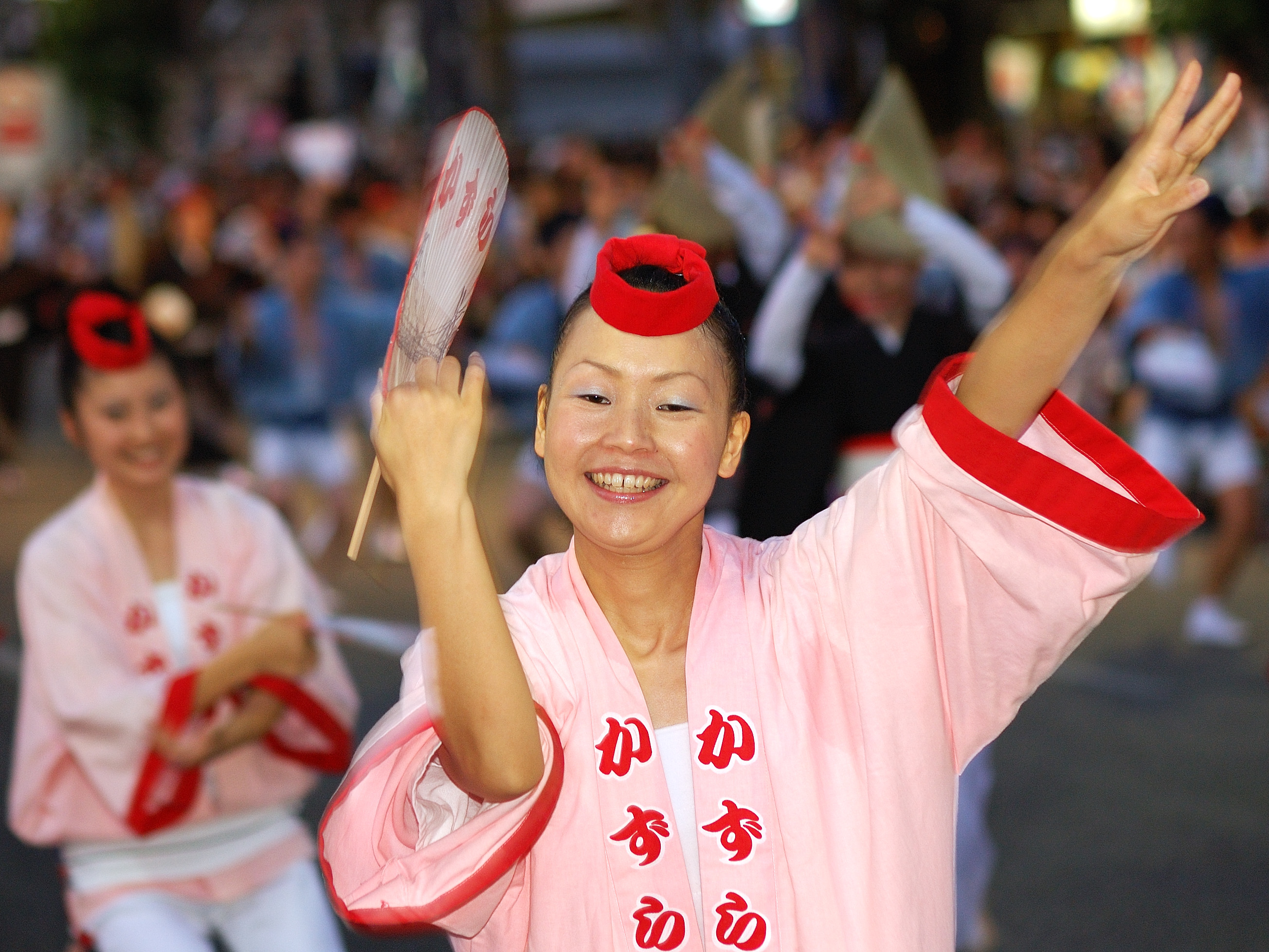 Awa Odori in Tokushima, Japan [2008]. Nikon D50